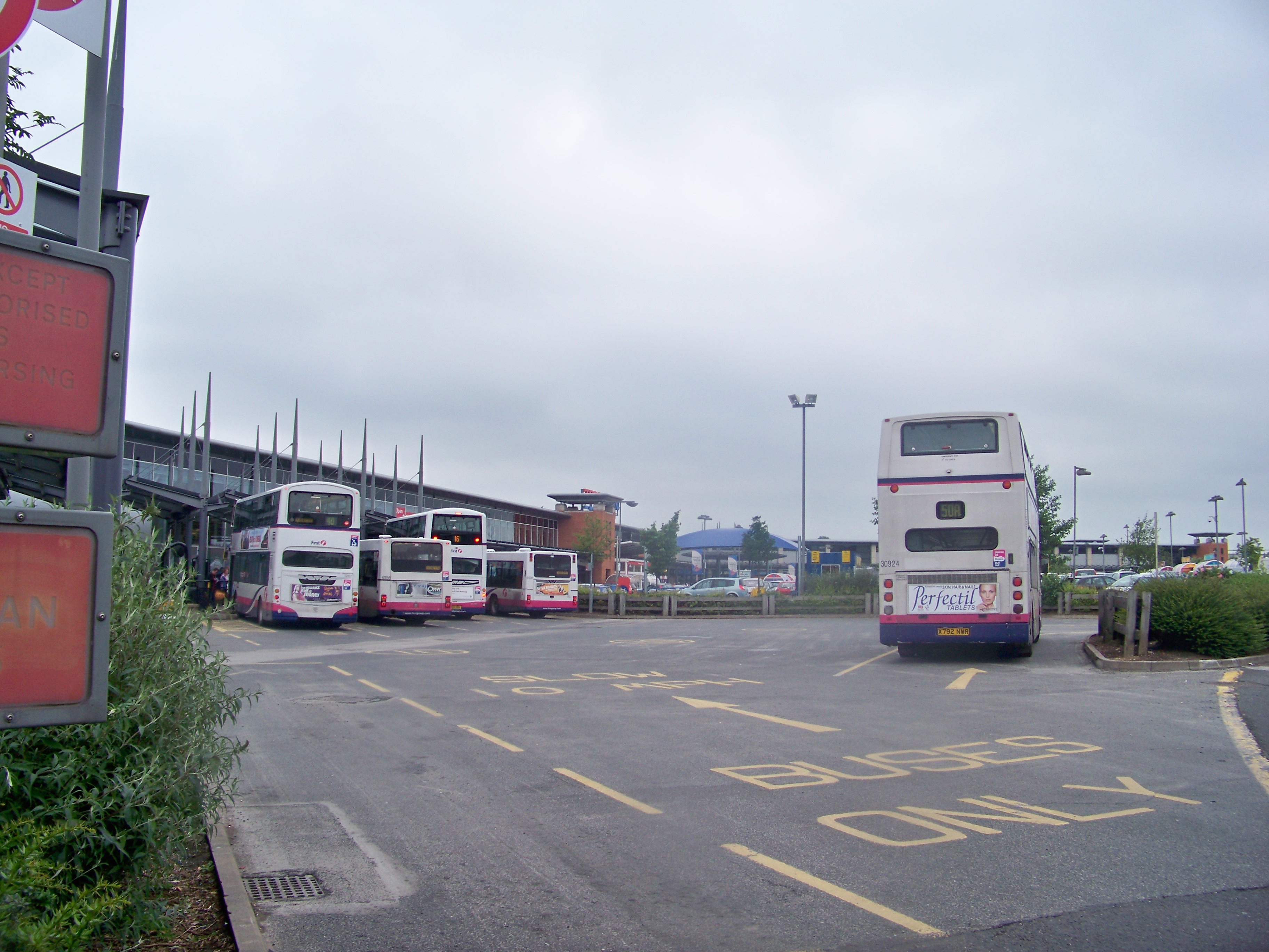 Seacroft bus station and FirstLeeds buses using it. Taken from the road entrance to Seacroft bus station in Seacroft, Leeds, West Yorkshire on the afternoon of Thursday the 10th of June 2010.